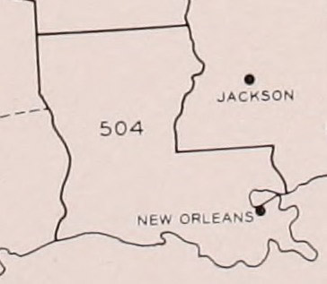 Area code 504 (= Louisiana), as of 1952.